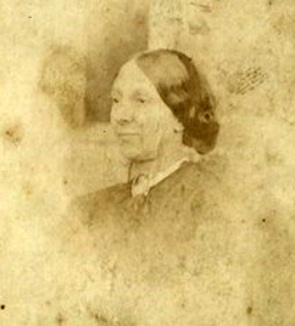 Rose Meadows, resident of Belstead Lodge, Ipswich, Suffolk